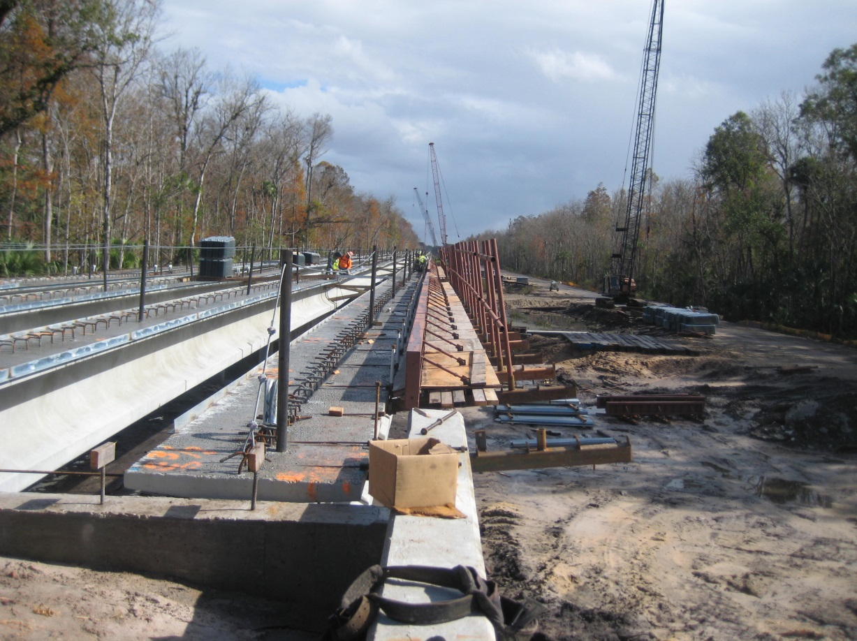 Bridge being built for the Poinciana Parkway over the Reedy Creek Mitigation Bank, near Poinciana, Florida